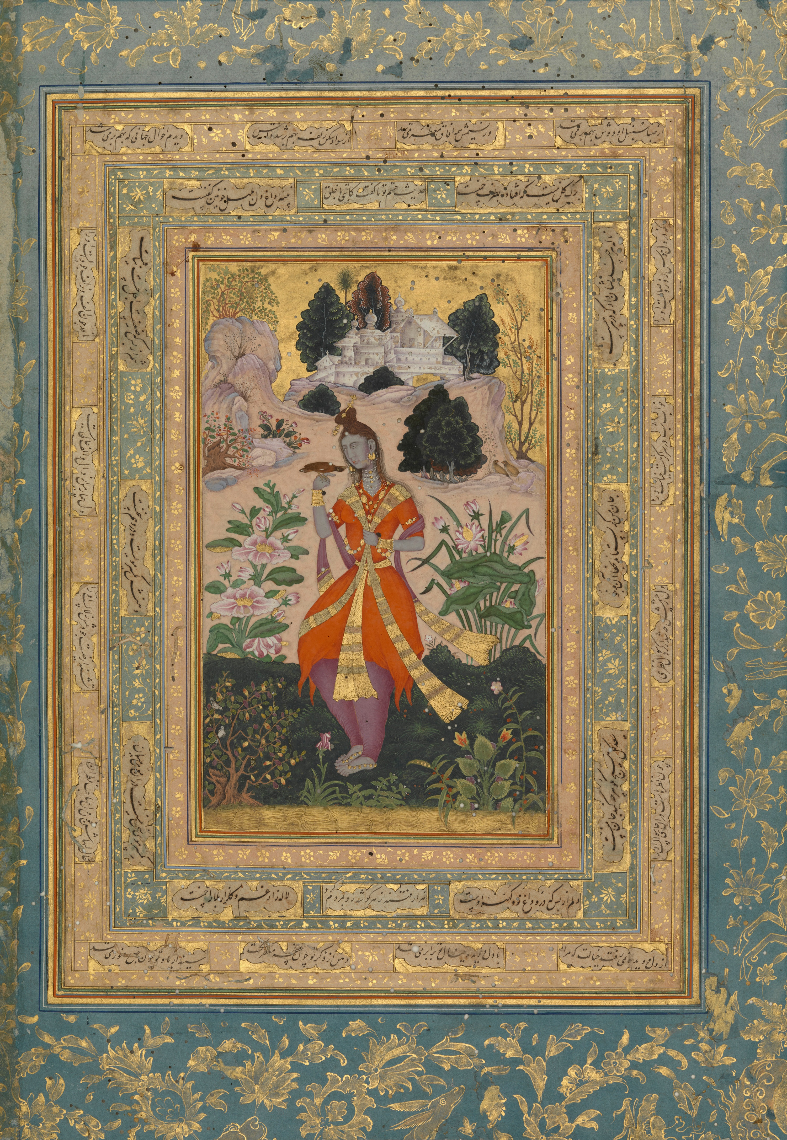 Yogini with a Mynah Bird, by the Dublin Painter. Bijapur, early 17th century, 44x32cm, Chester Beatty Library, Dublin